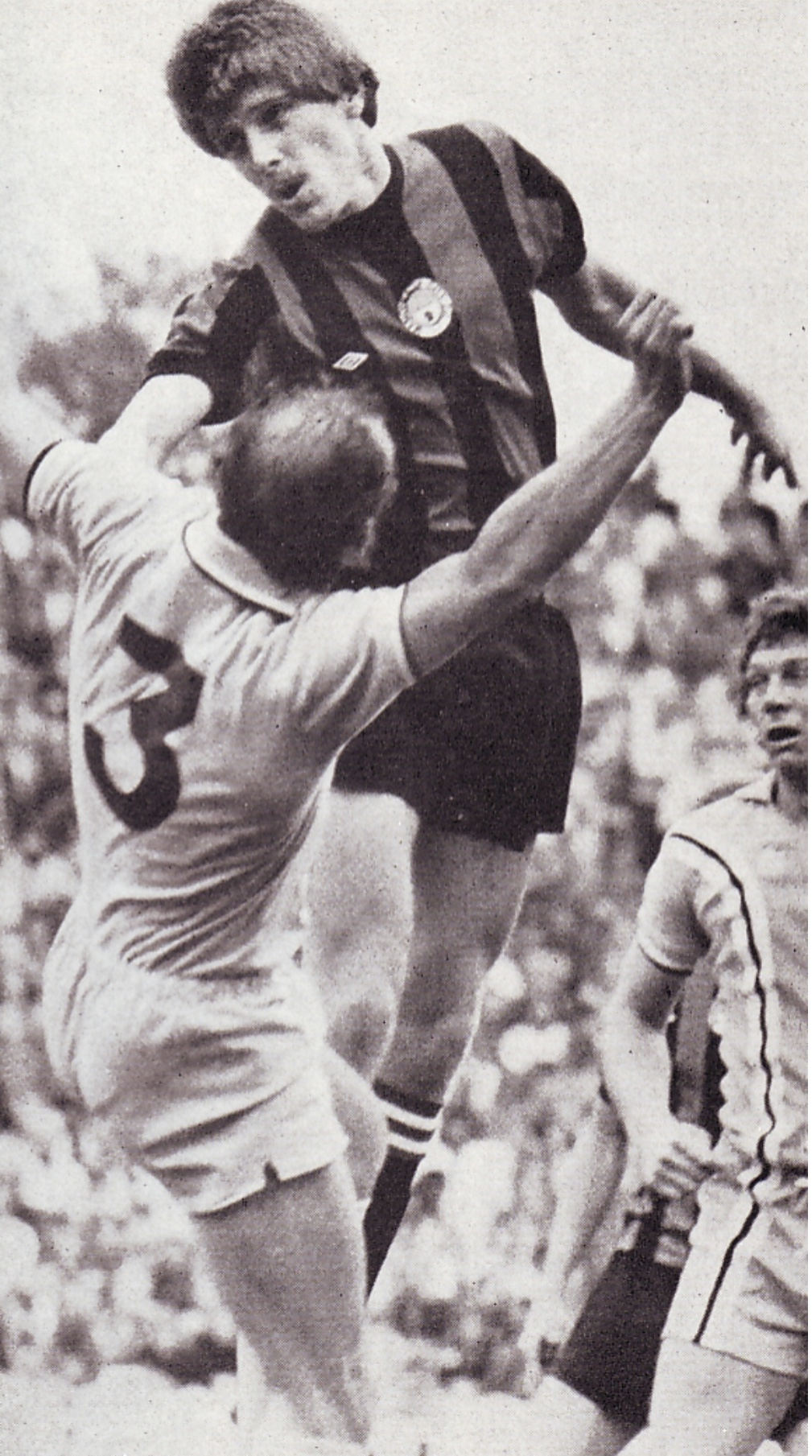 This is Billy Telford playing in his one senior league game for Manchester City against Coventry City in August 1975